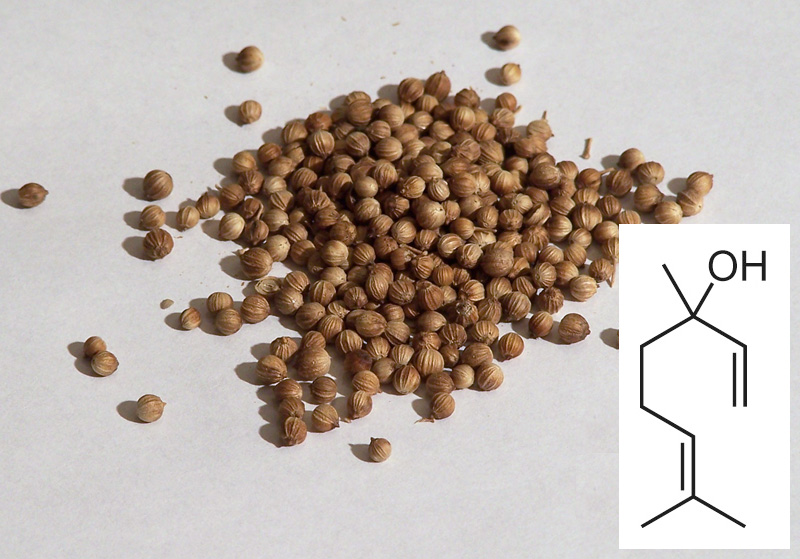 Chemical structure of linalool on coriander seeds, from which linalool can be obtained.